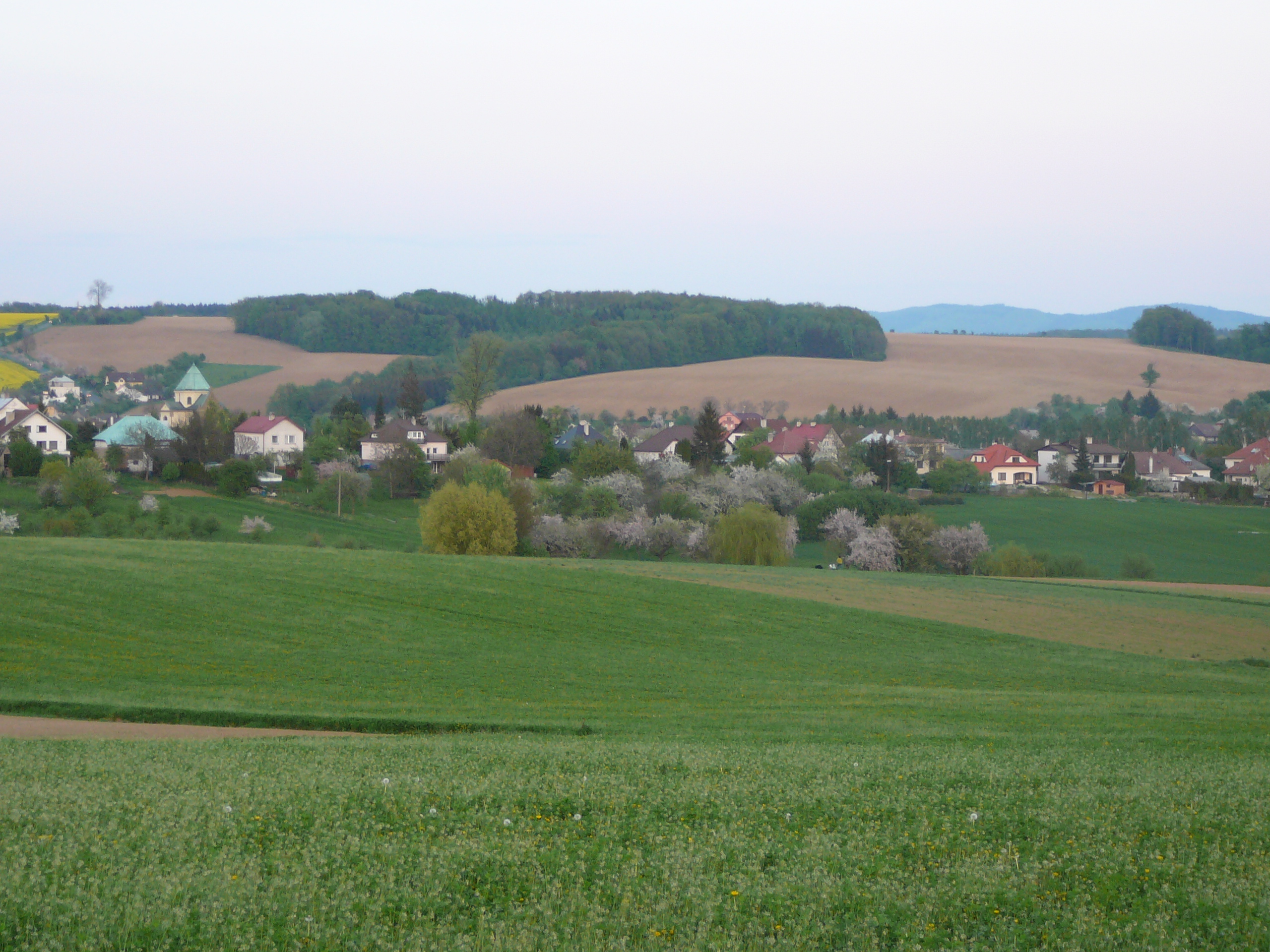 Štípa from Kostelec